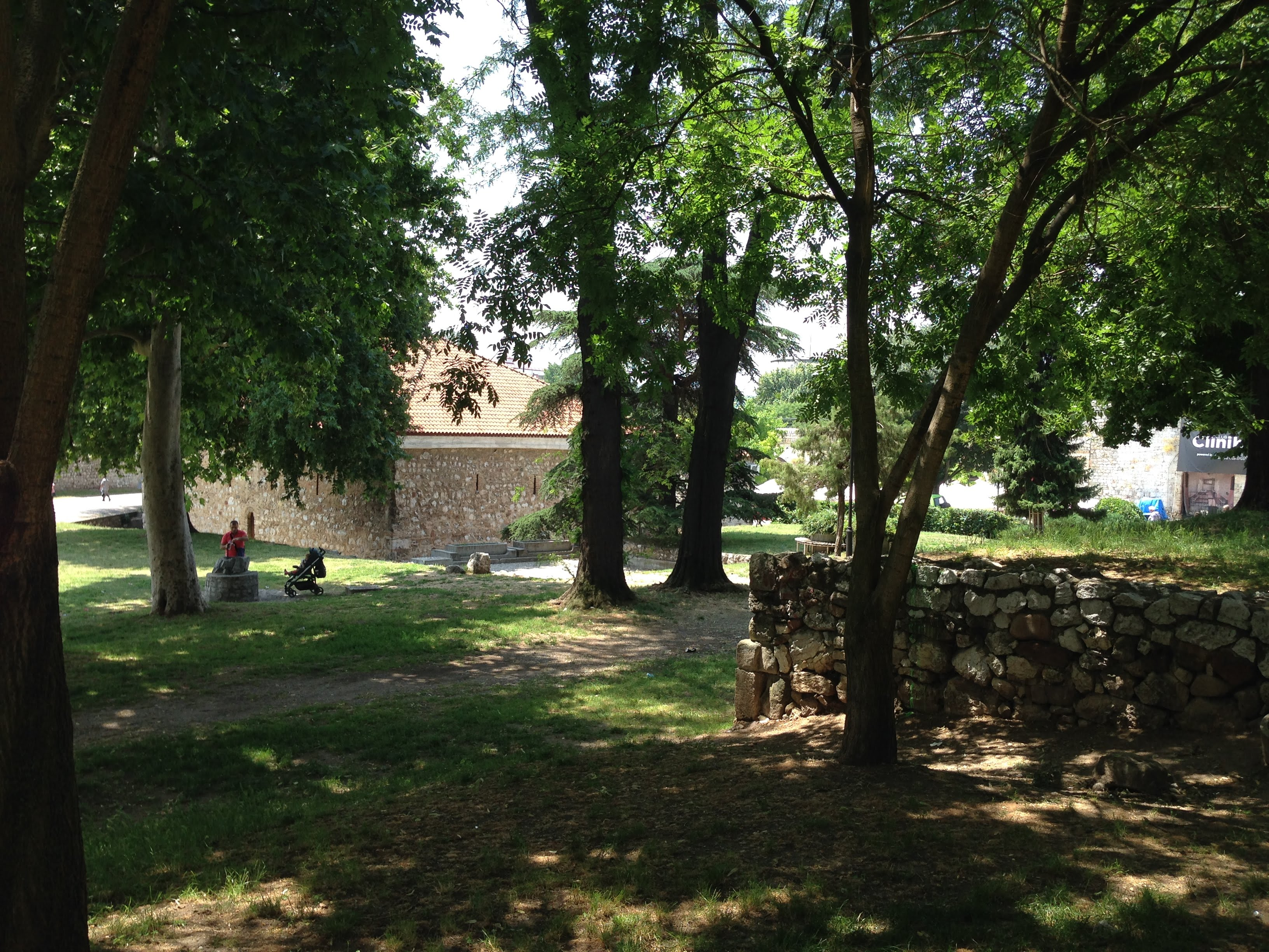 Аncient workshop in the Niš Fortress